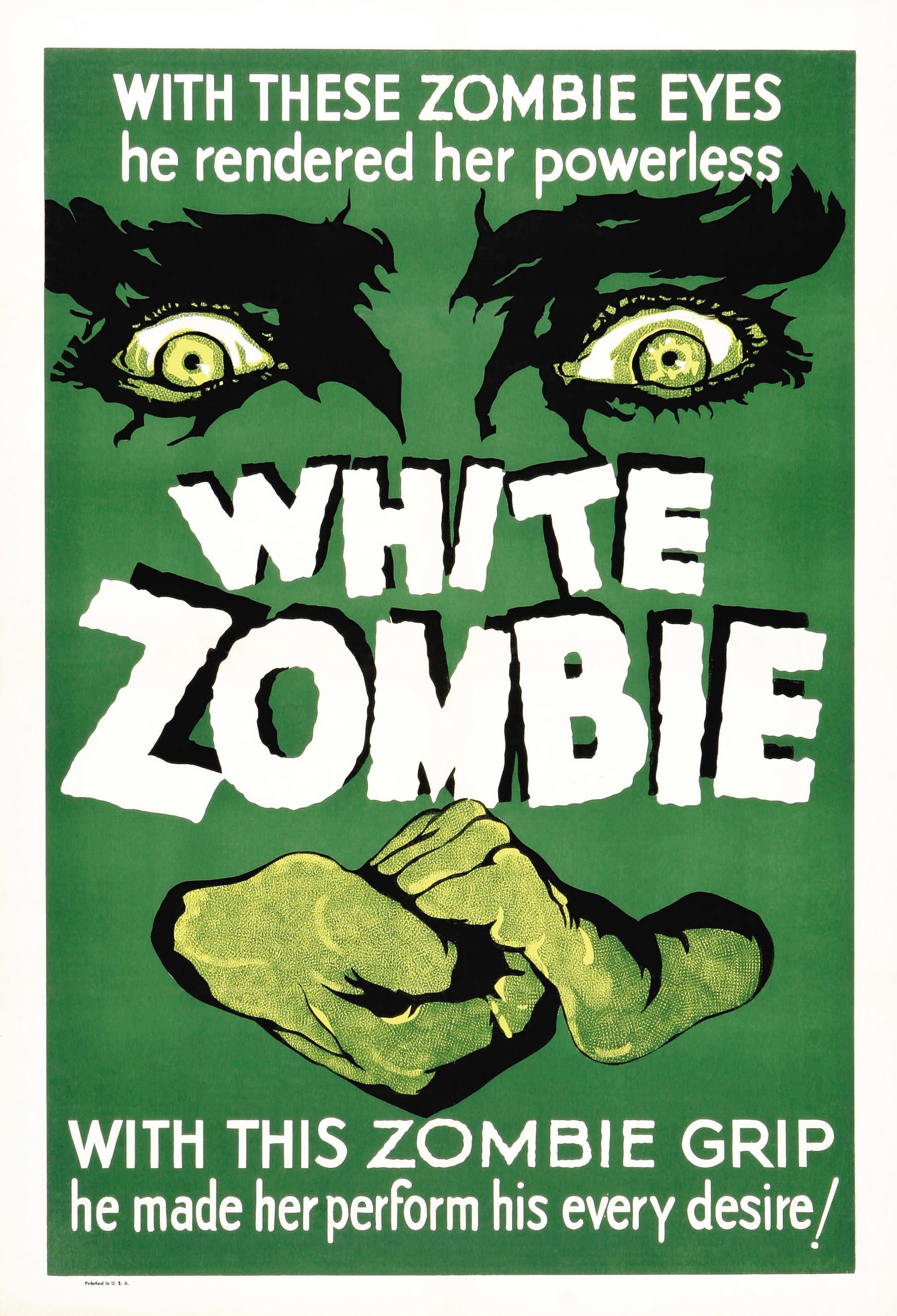 Film poster for White Zombie, a 1932 independent film